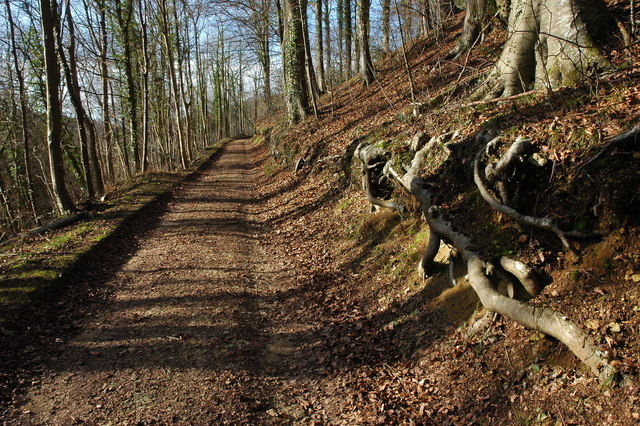 Track through Worksman Wood Track and bridleway through Worksman Wood, Woodland in the care of the National Trust.